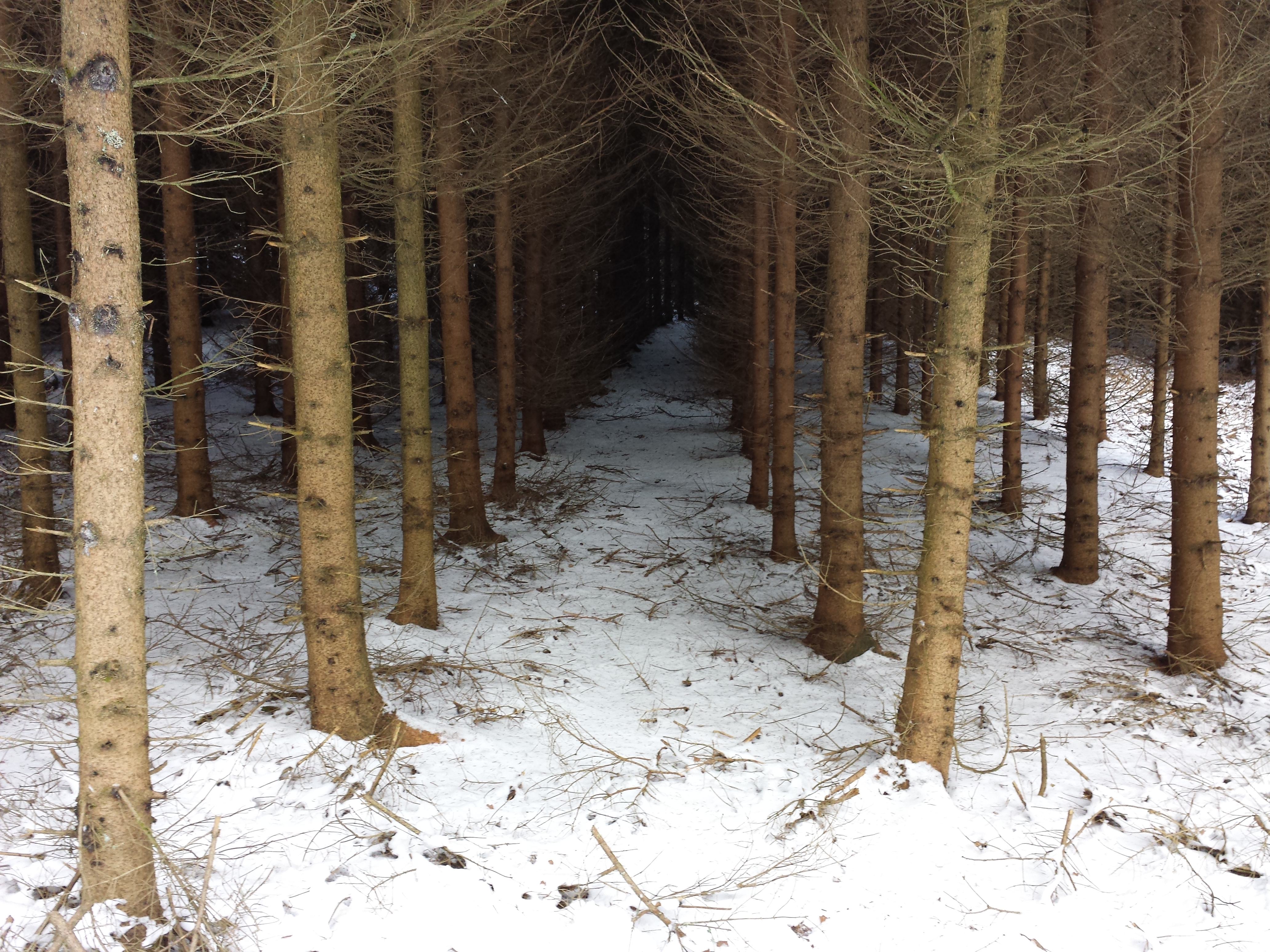 Spruce monoculture near Groß-Gundholz, district Zwettl, Lower Austria